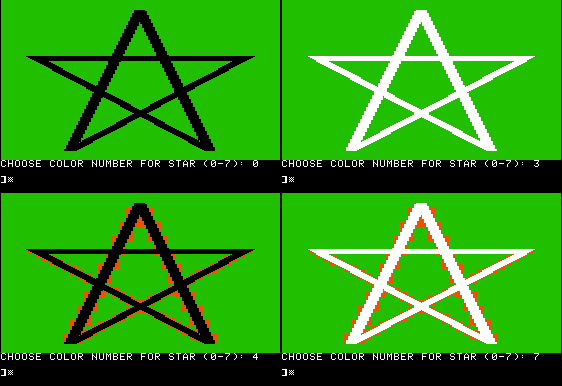 Demonstration of the fringe effects visible in the standard Apple II high-resolution graphics mode. Images generated from a simple BASIC program written by me and released into the public domain.